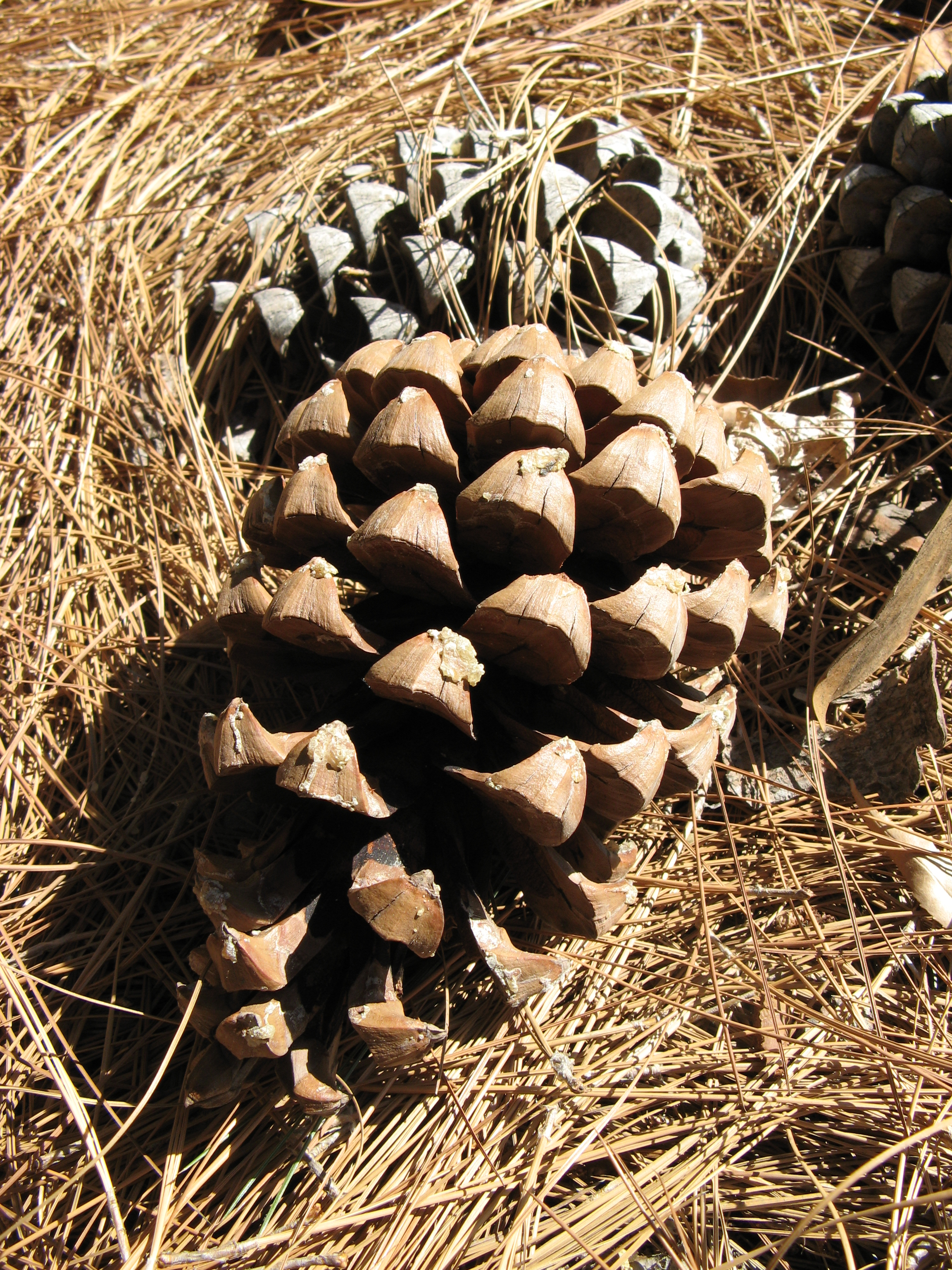 A dried Chir Pine Pinus roxburghii cone, cultivated at the Los Angeles County Arboretum and Botanic Garden, California.